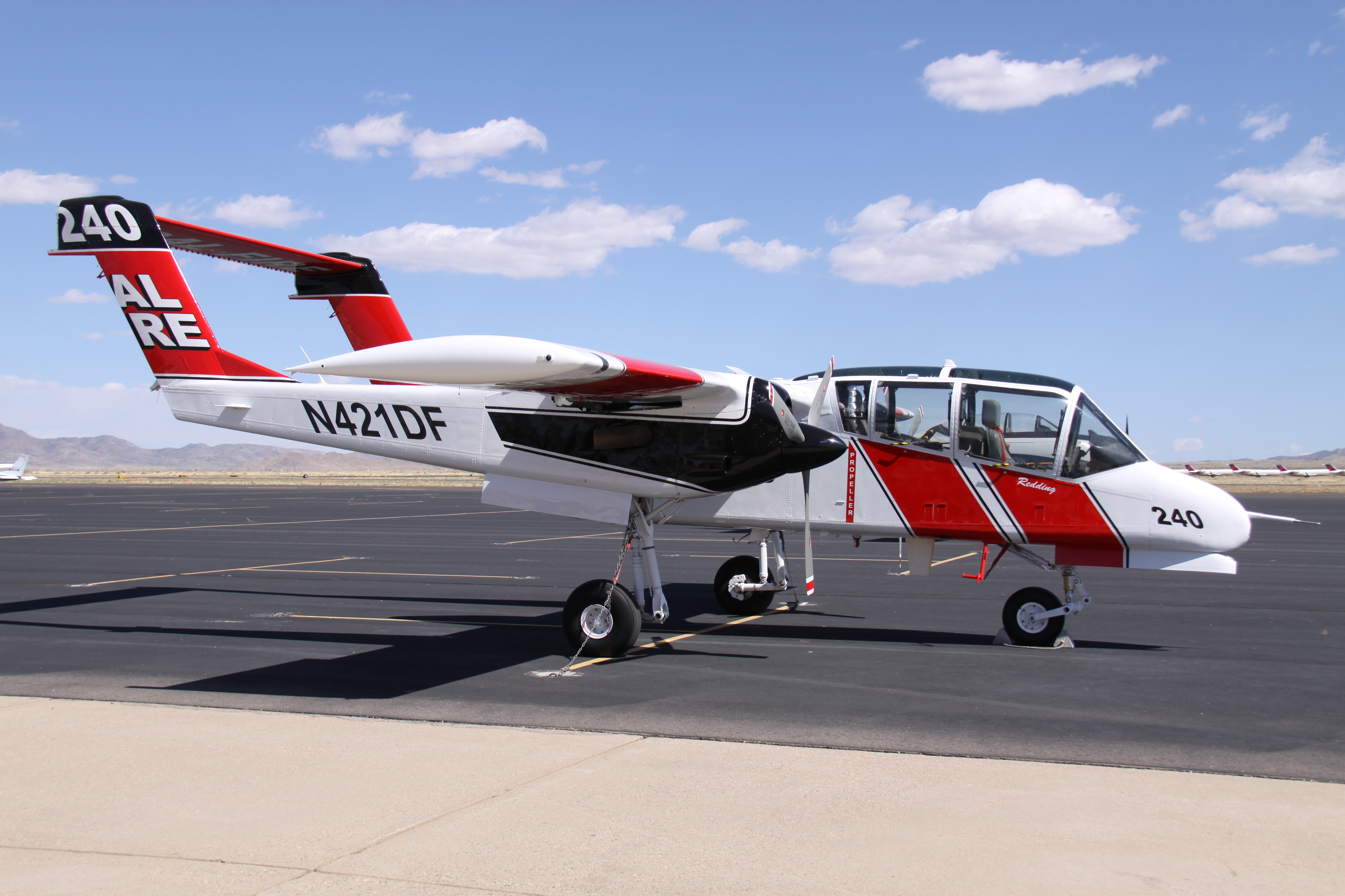 At Kingman Airport ( Arizona )